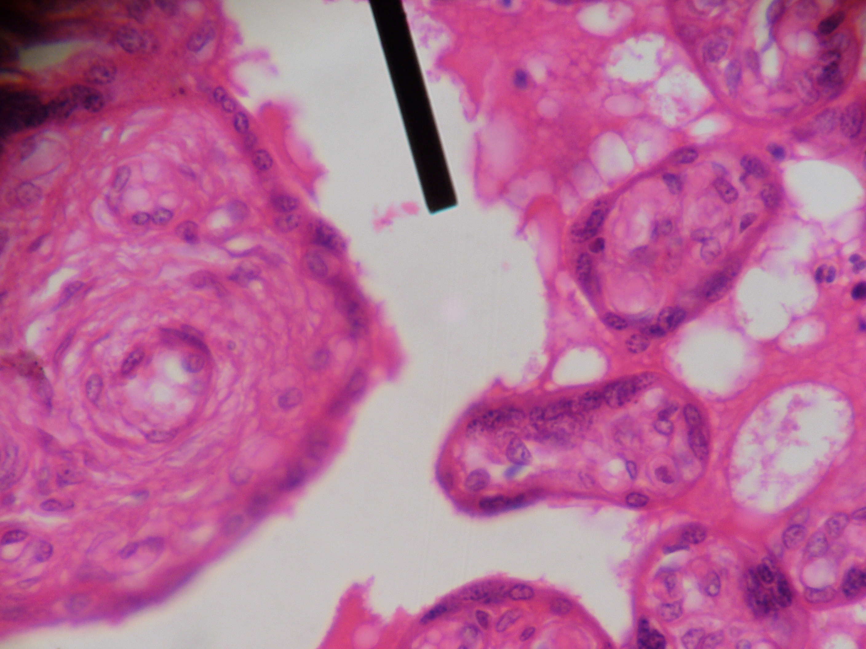 Author's own picture. Digital camera shot though a microscope; human intervillous space.